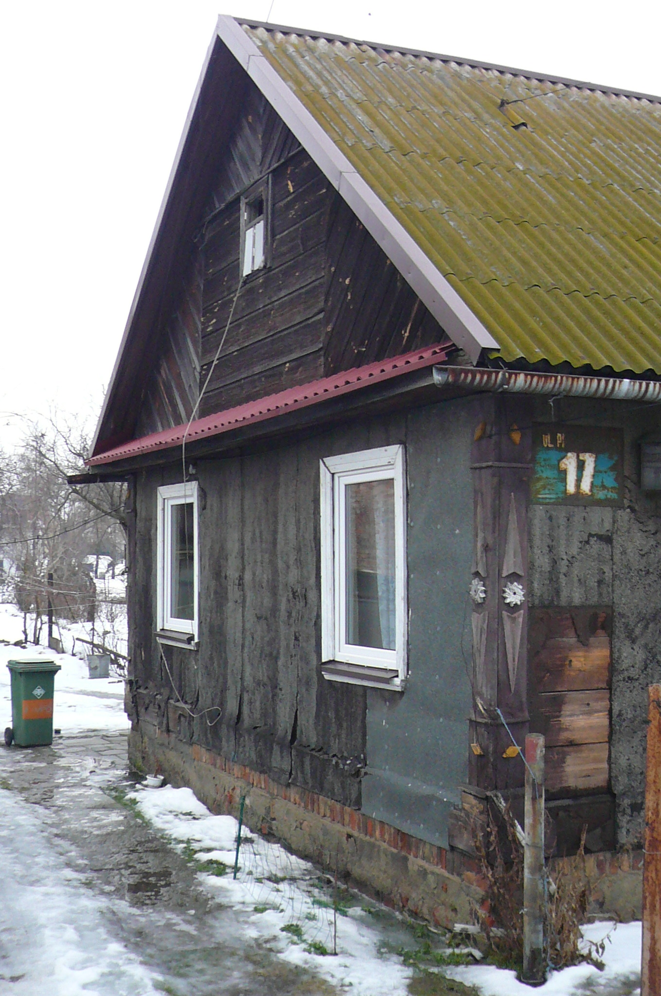 The peasant house in Blizne Jasińskiego